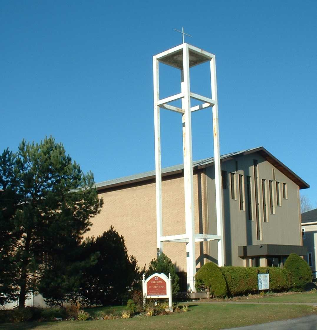 St. Stephen's Anglican Church on All Saints Day 2007